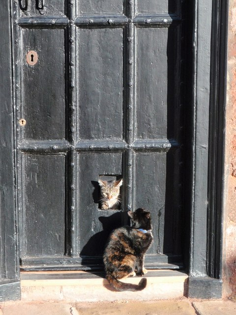 Cats and a catflap, Cathedral Close, Exeter